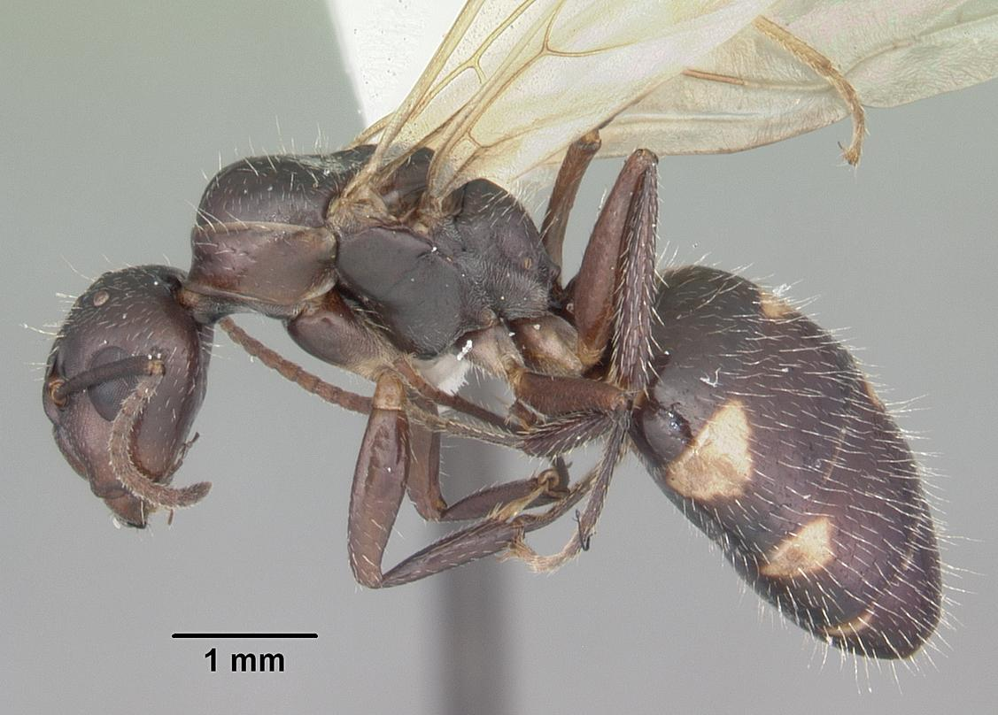 Profile view of ant Camponotus sexguttatus specimen casent0103708.